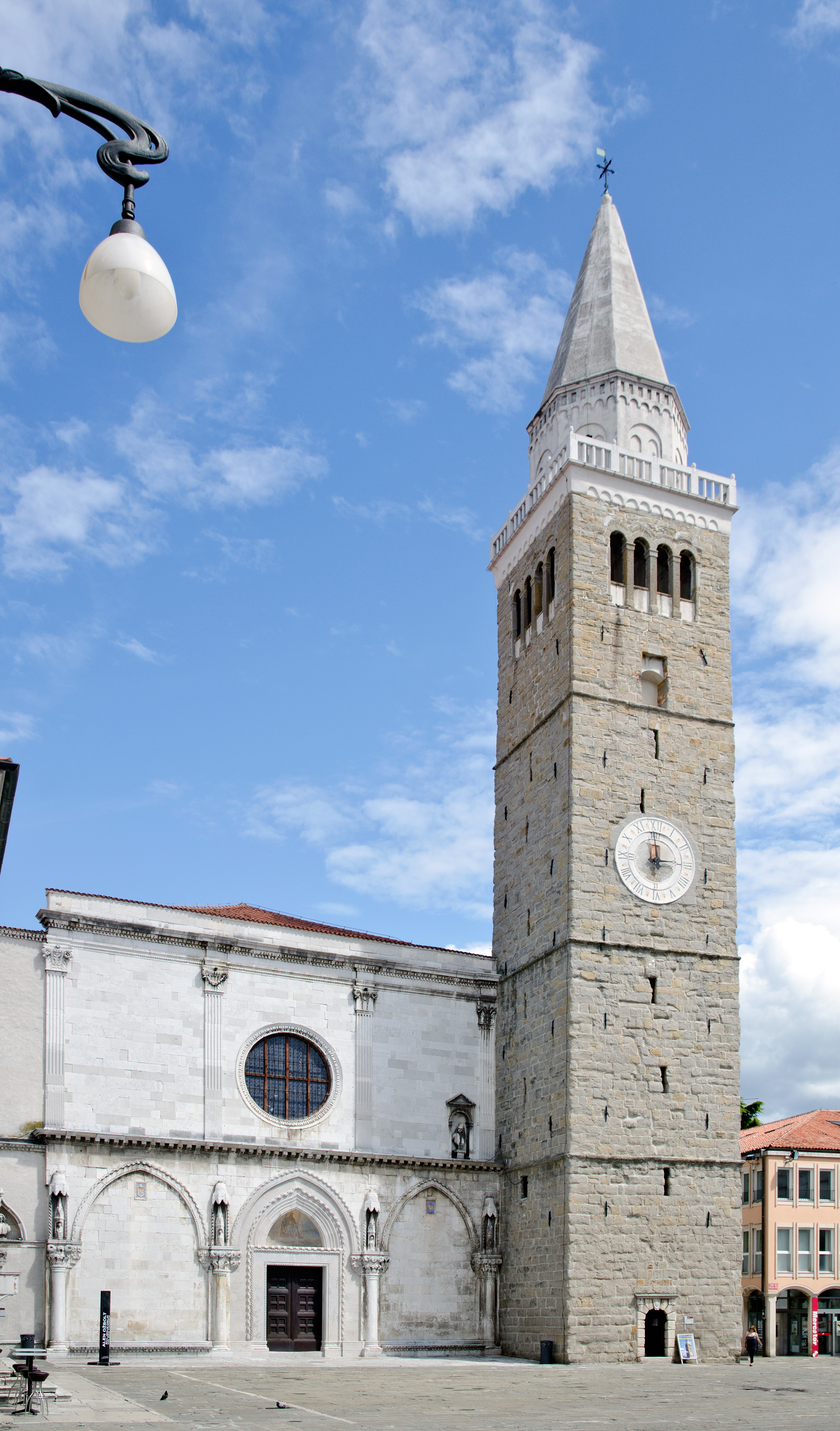 Koper (Slovenia), Cathedral of Mary’s Assumption (originating from the 12th century)